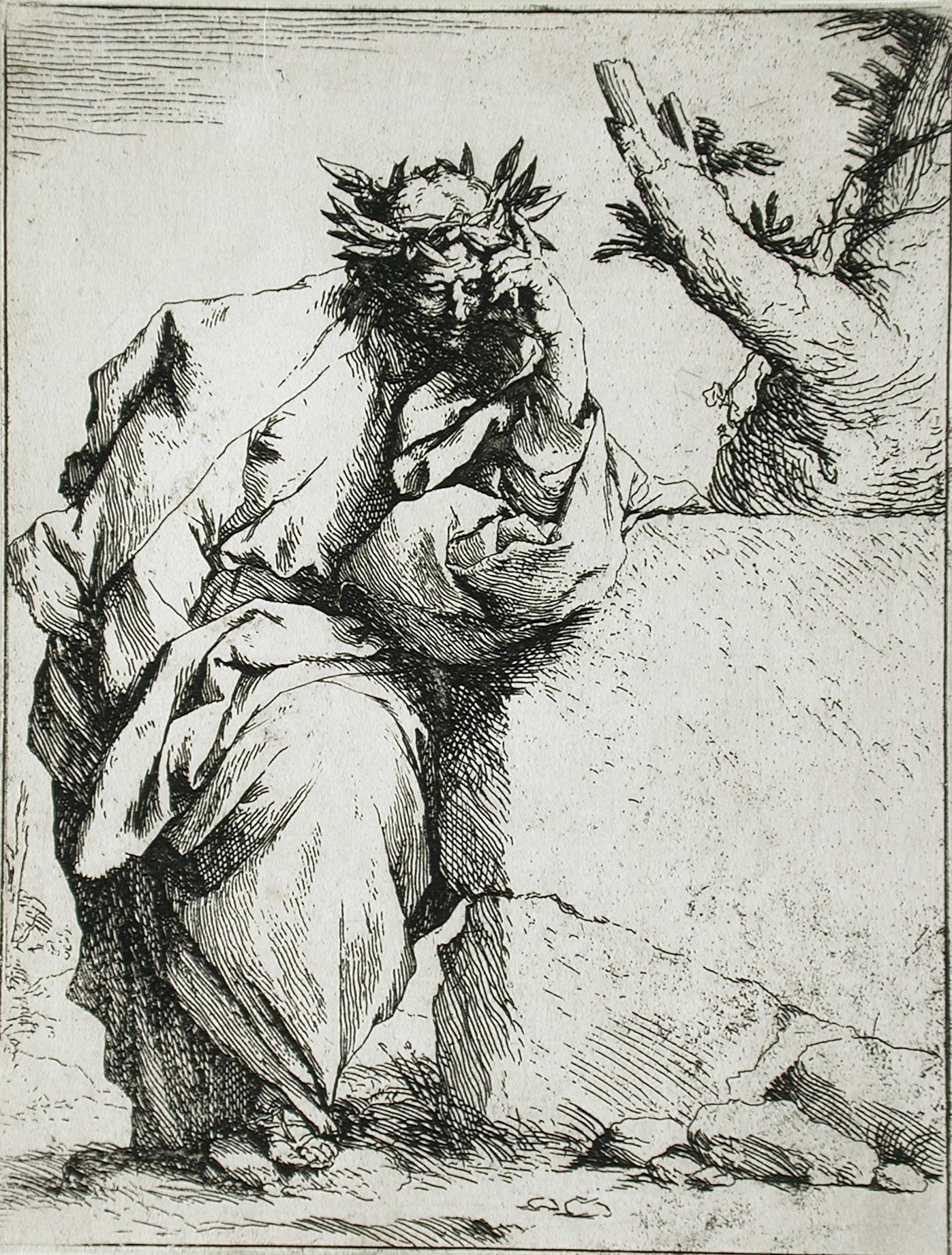 Italy, circa 1620-1621 Prints; etchings Etching Purchased with funds provided by Alexandre Rosenberg, Dr. and Mrs. Boris Catz and Museum Acquisition Fund (M.88.47) Prints and Drawings